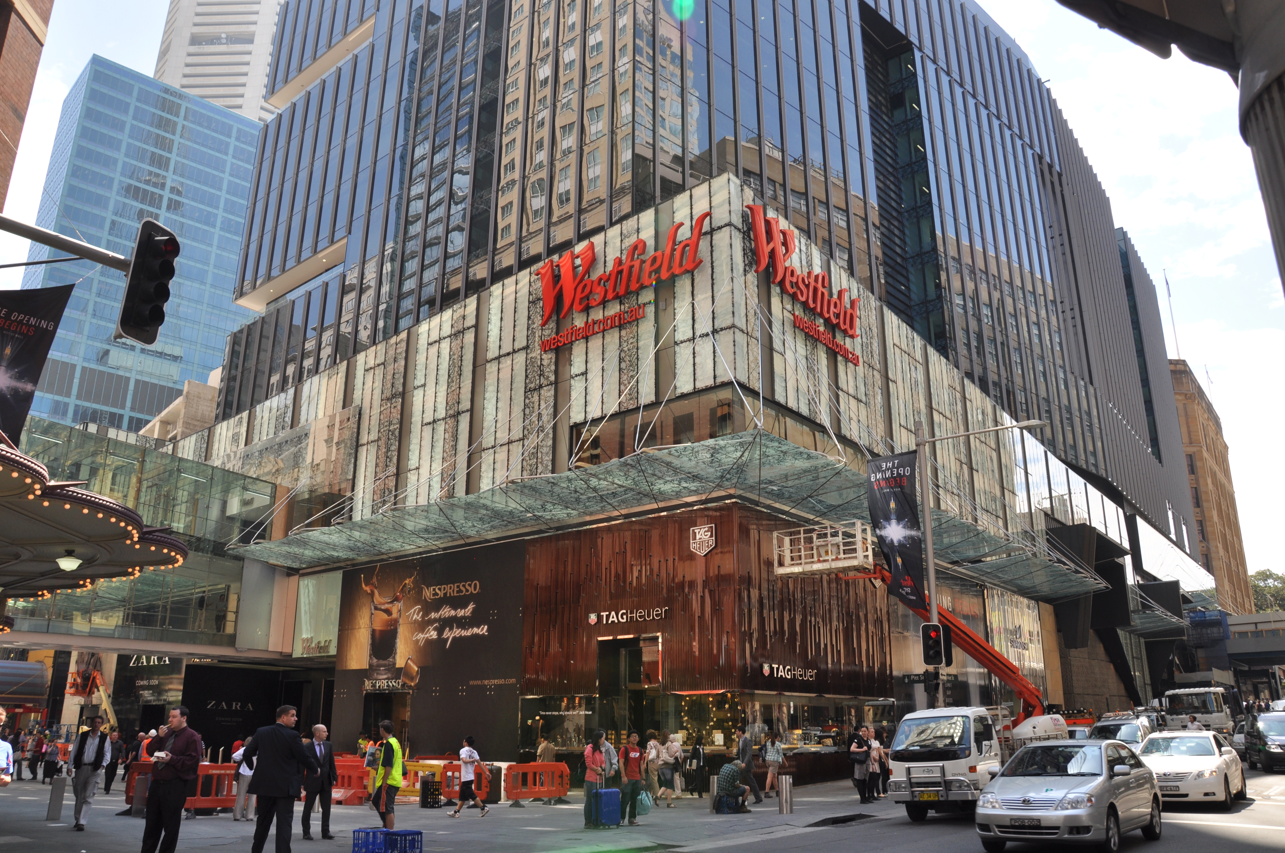 New Westfield shopping centre, Sydney CBD